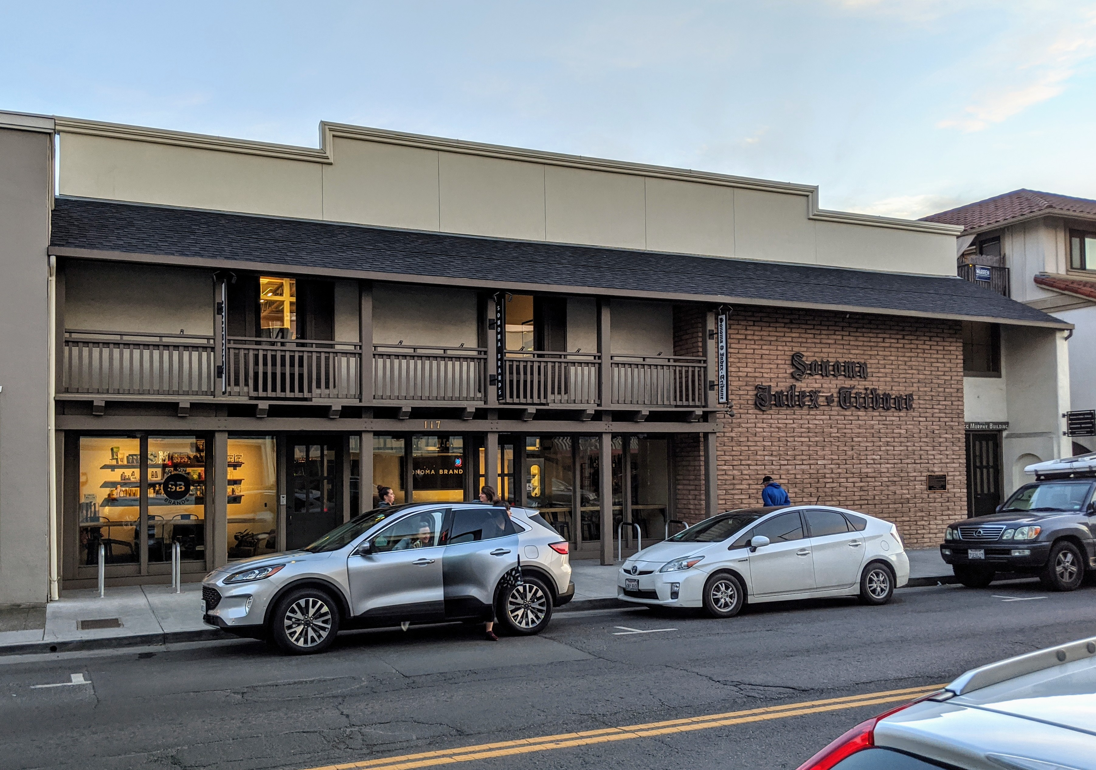 Offices of the Sonoma Index-Tribune, a newspaper published since 1879. Photo by Jim Heaphy.